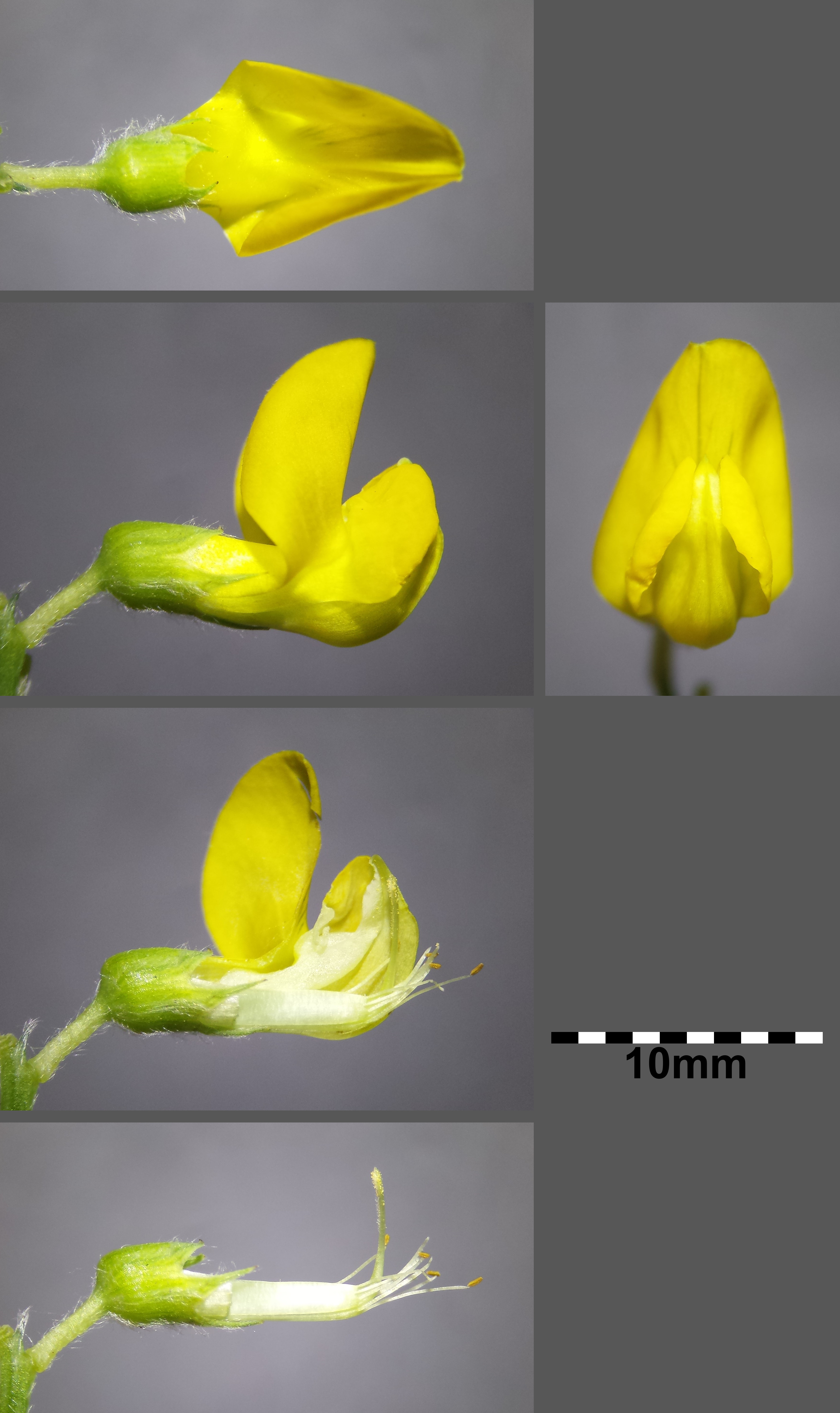 Flower Taxonym: Lathyrus pratensis subsp. pratensis ss Fischer et al. EfÖLS 2008 ISBN 978-3-85474-187-9 Location: Rohrwald, district Korneuburg, Lower Austria - ca. 300 m a.s.l. Habitat: border of a wood